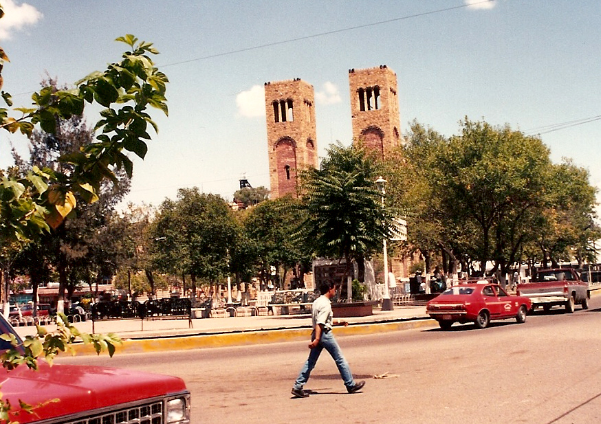 Plaza Guillermo Baca in Parral, Chihuahua, Mexico.Taken by me in 1992